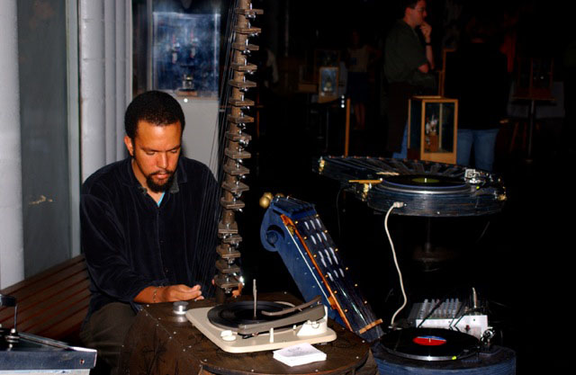 Walter Kitundu Playing his Phonokora